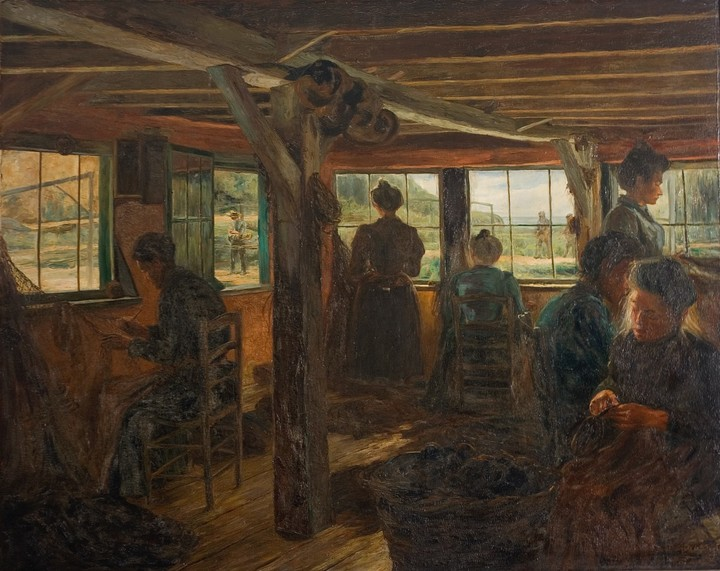 In Normandy